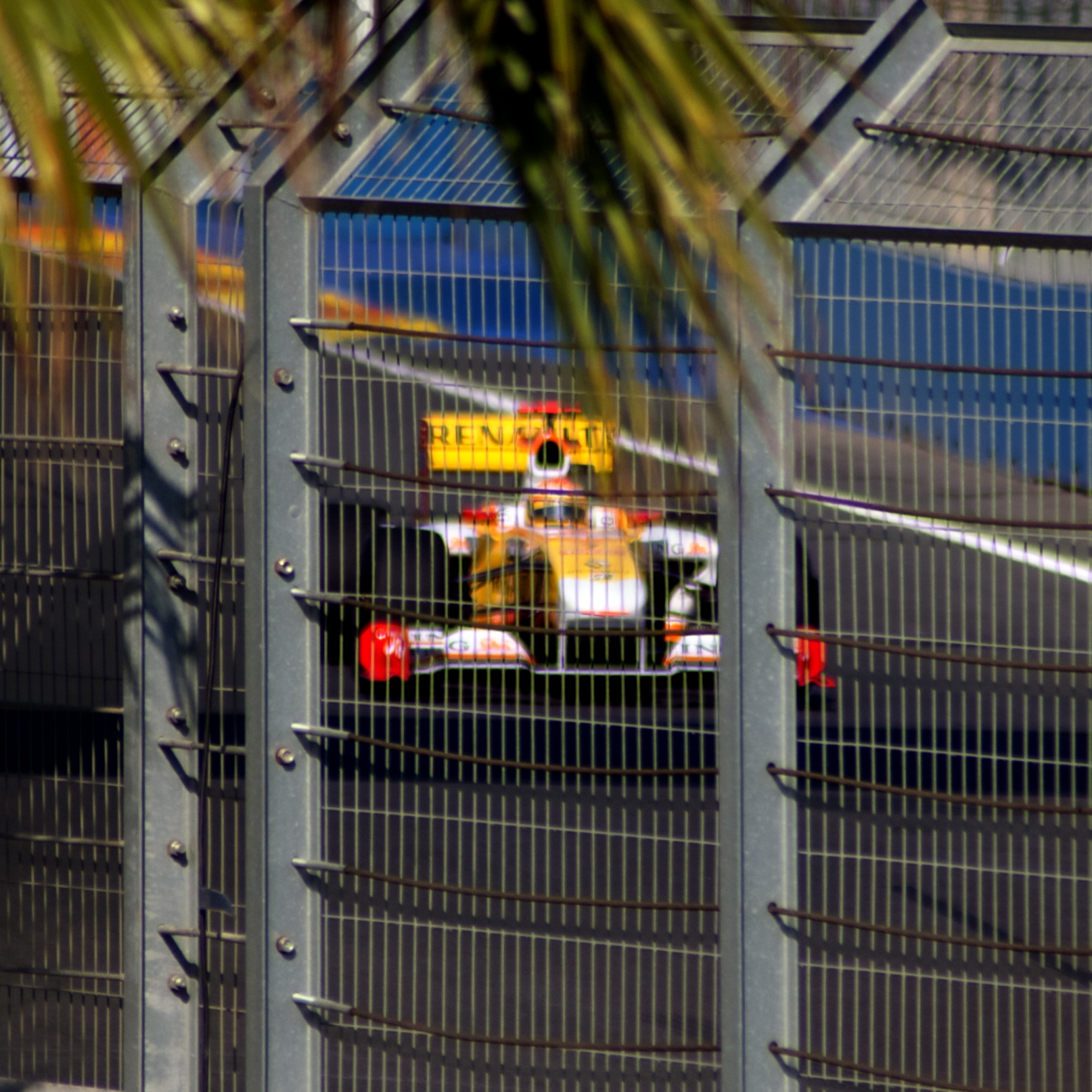 Fernando Alonso driving for Renault F1 at the 2009 European Grand Prix.